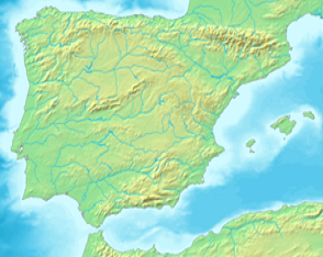 Small equirectangular physical map of the Iberian Peninsula. Coordinates : 35 to 44 degrees North, 10 degrees West to 4'7 degrees East.